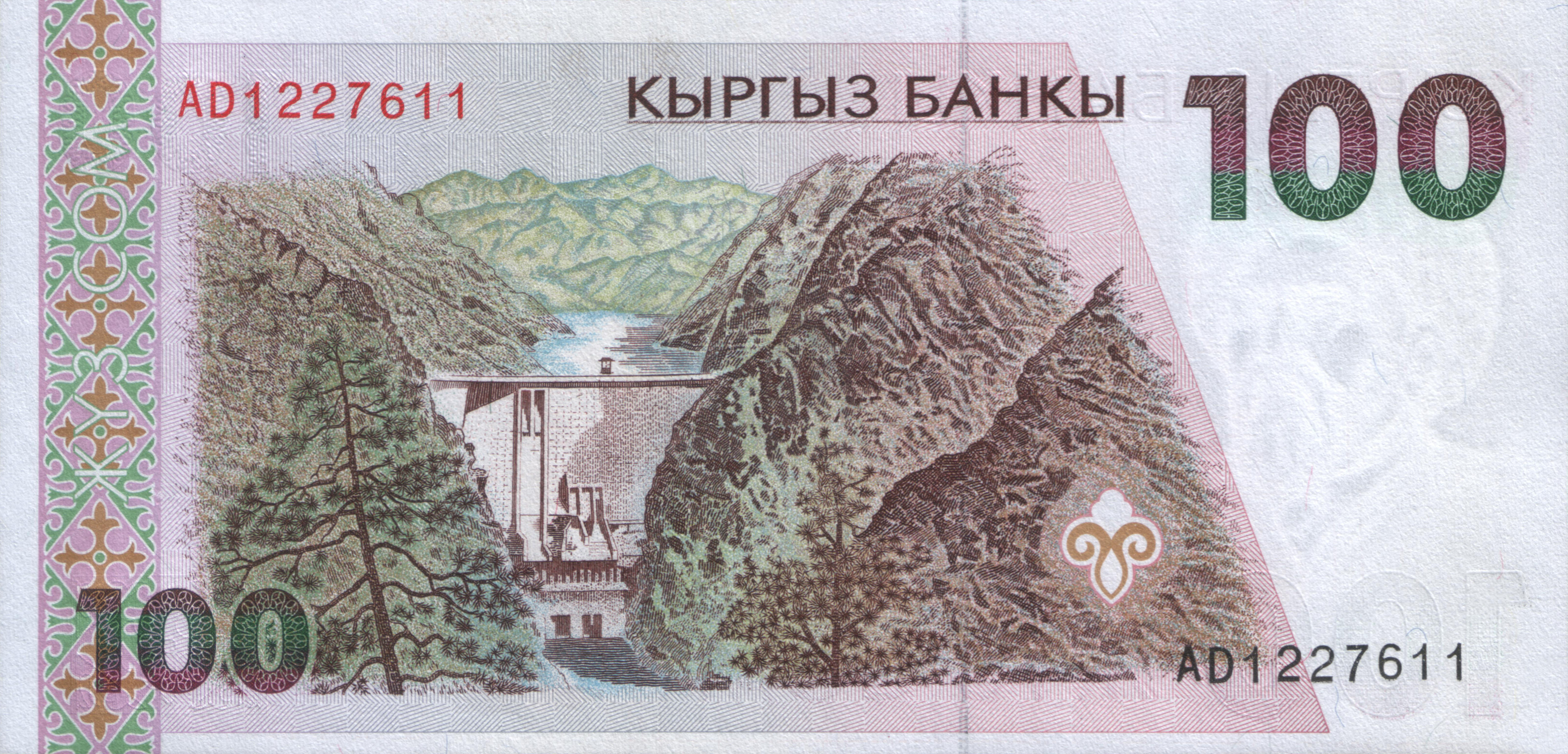 100 som of Kyrgyzstan (1994)